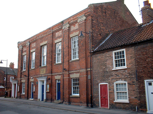 The Assembly Rooms, Barton-Upon-Humber. The Assembly Rooms, Queen Street, Barton-Upon-Humber, North Lincolnshire. This building houses Barton Town Council.